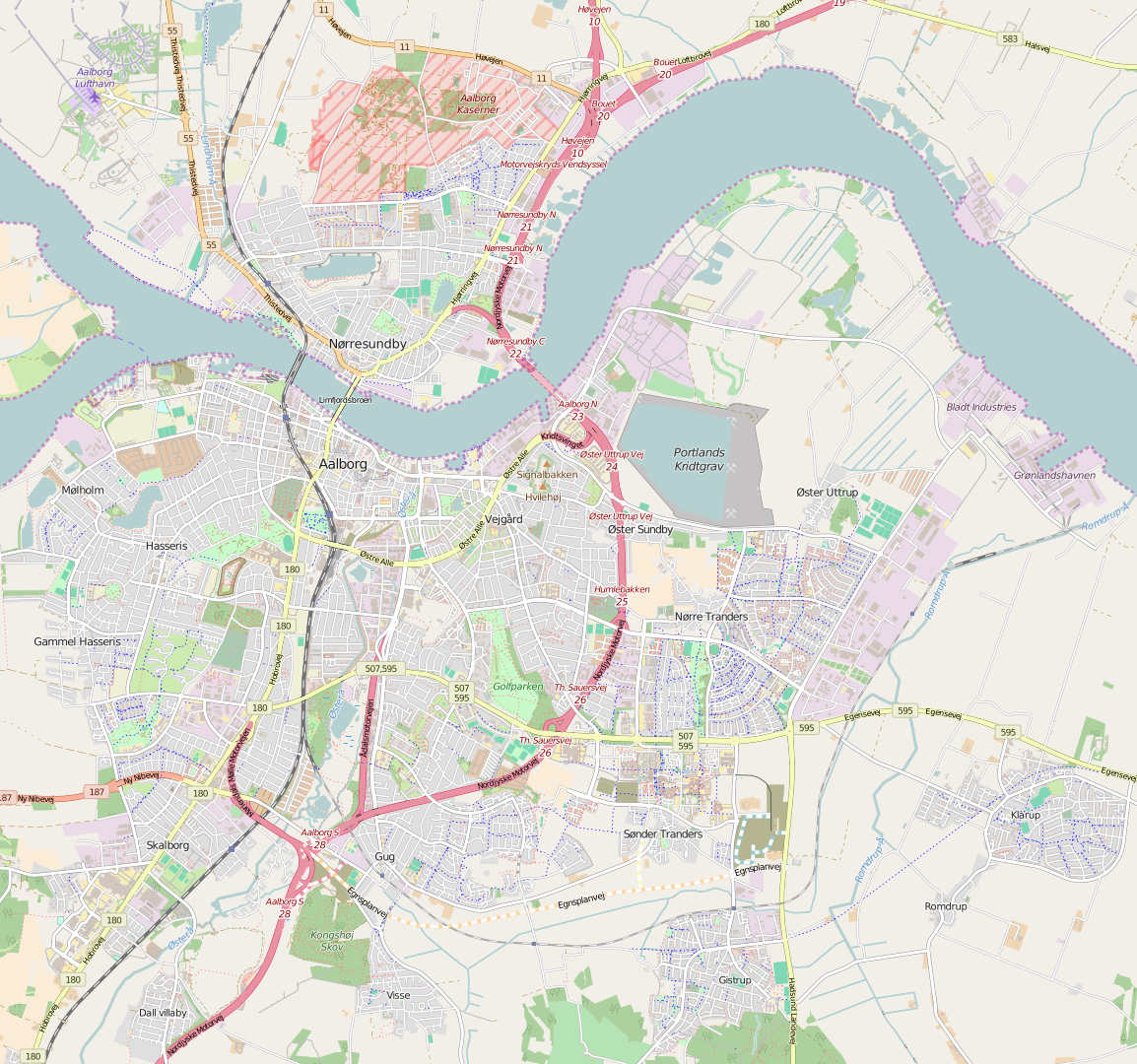 Map of the cities Aalborg and Nørresundby. N 57.09643 V 9.85364 S 56.9856 E 10.0713